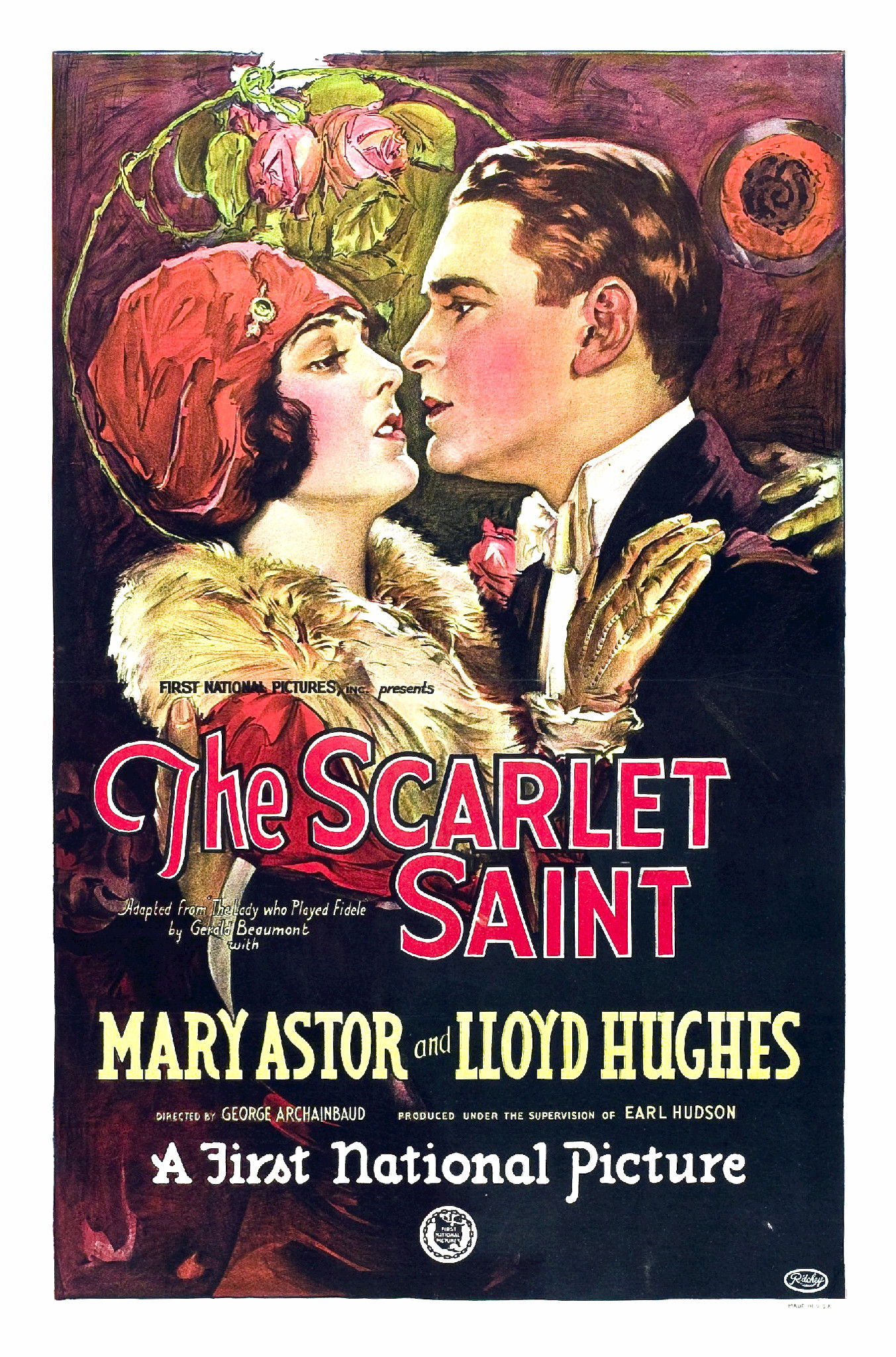 Poster for the 1925 film The Scarlet Saint. There are no copyright marks on the item. At lower right is the logo of the Ritchie Litho Co--they printed the poster and Made in USA.